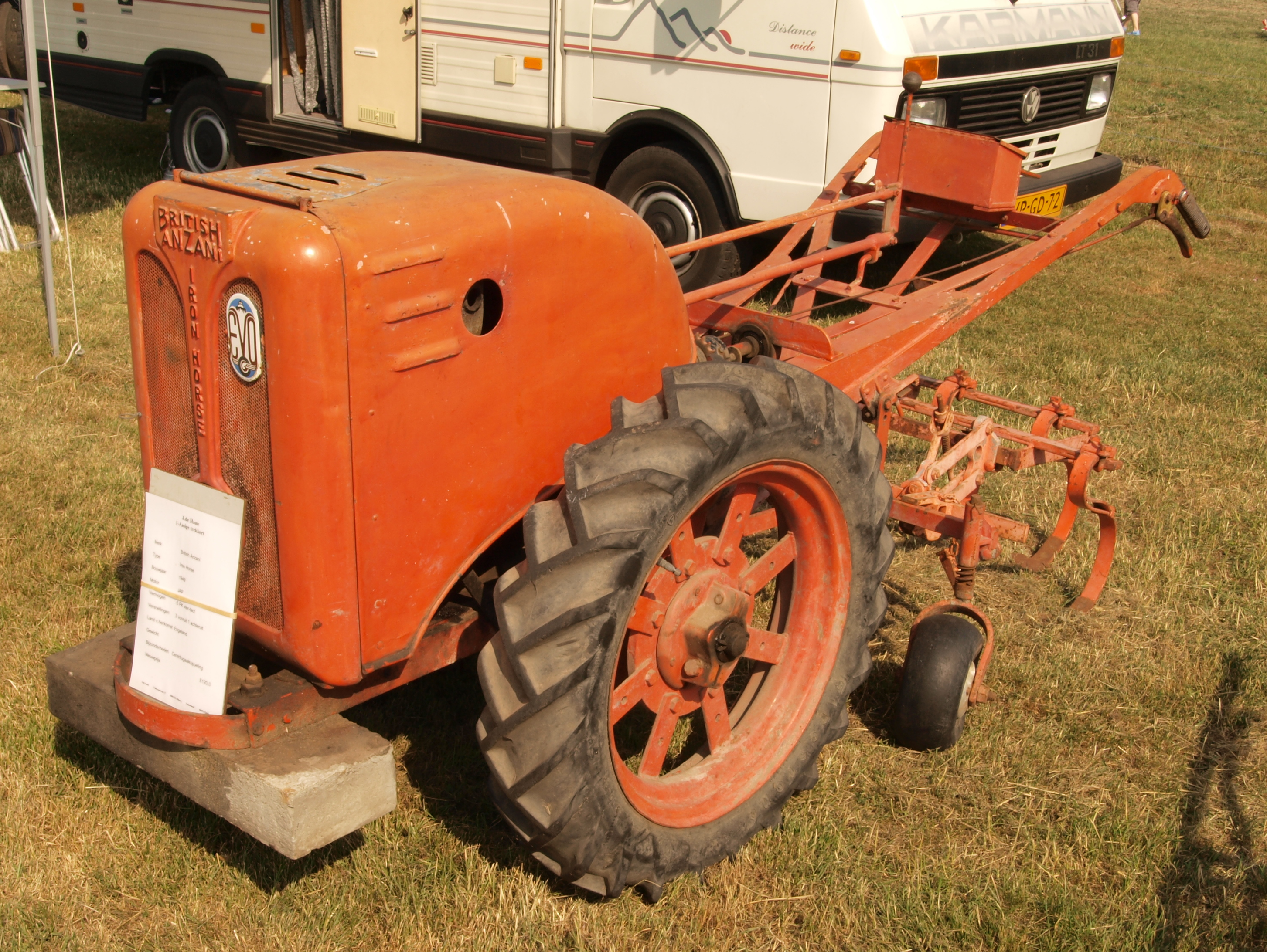 Photographed in The Netherlands. British Anzani Iron Horse.